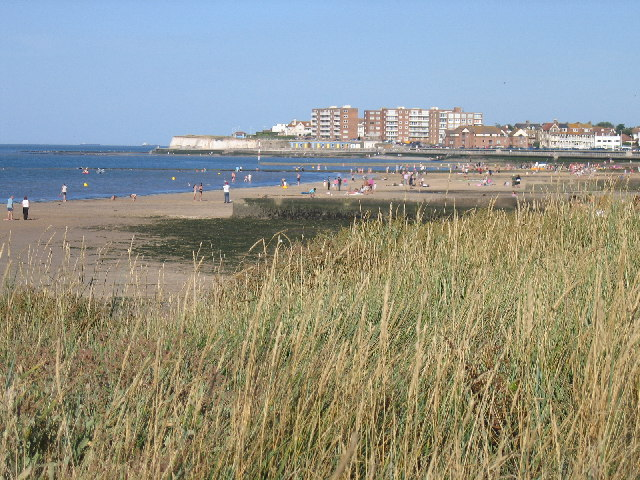 Minnis Bay, nr Margate, Kent